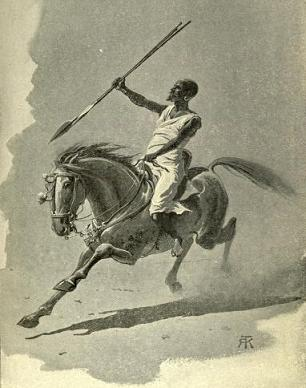 A Rizighat warrior